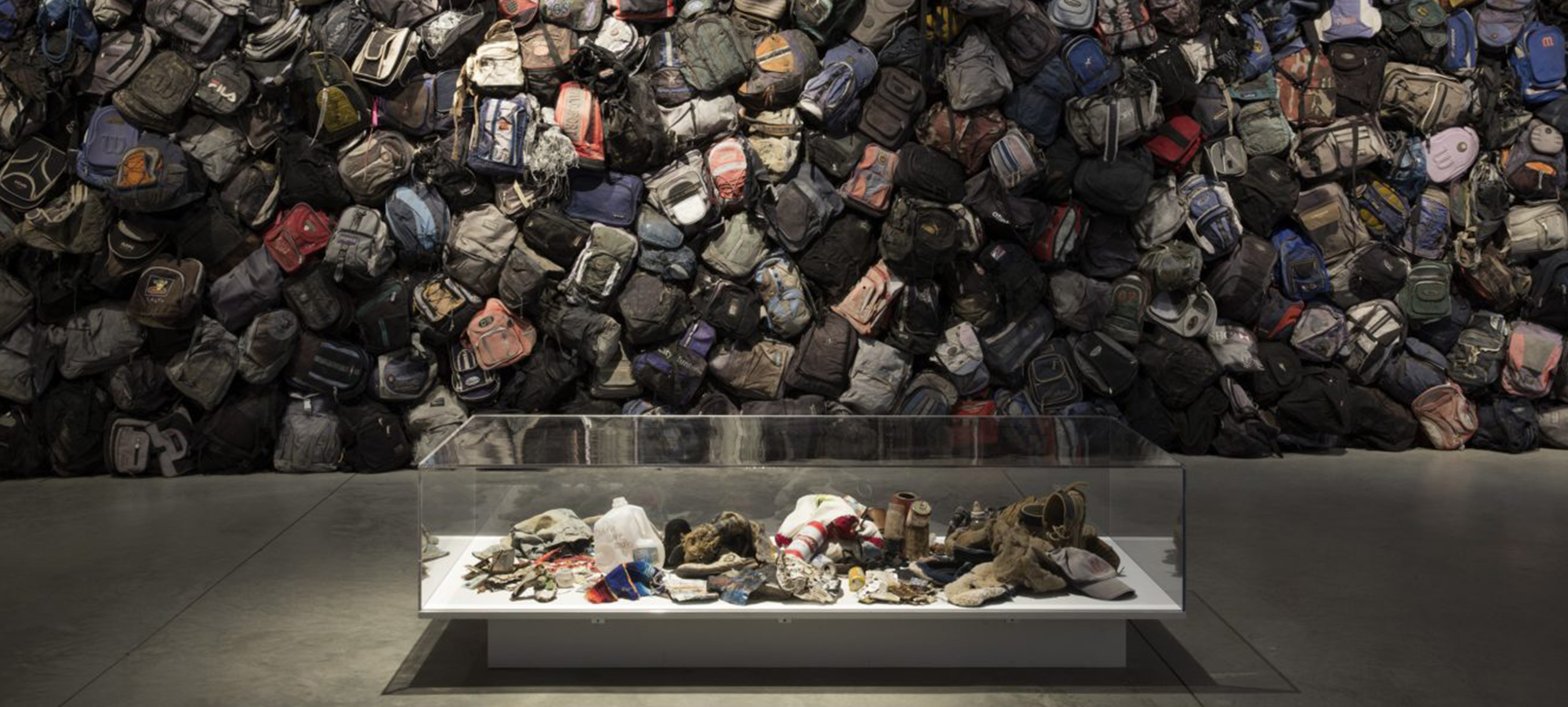 Archaeology Findings